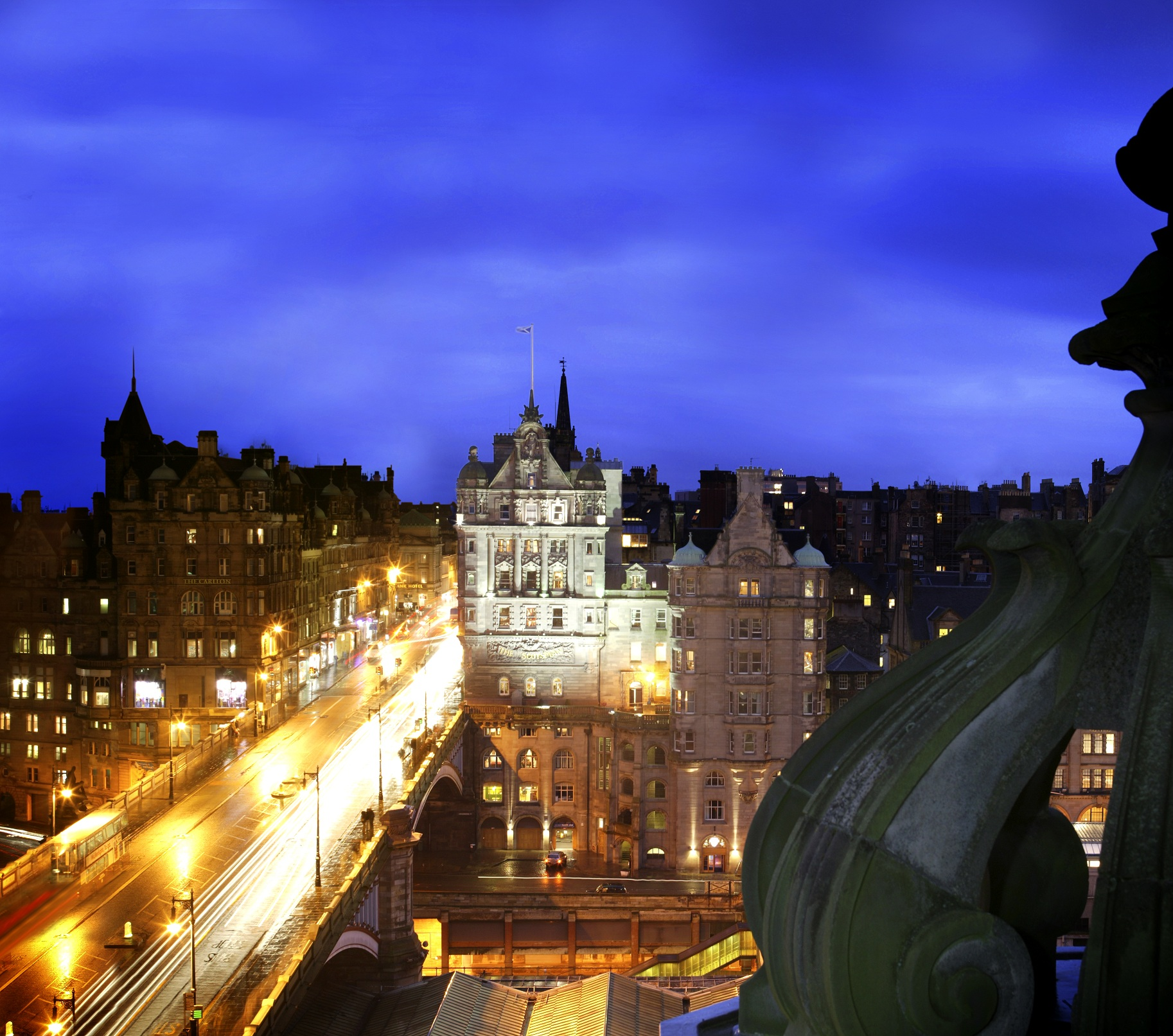 Exterior shot of The Scotsman Hotel, taken from Princes Street at night.